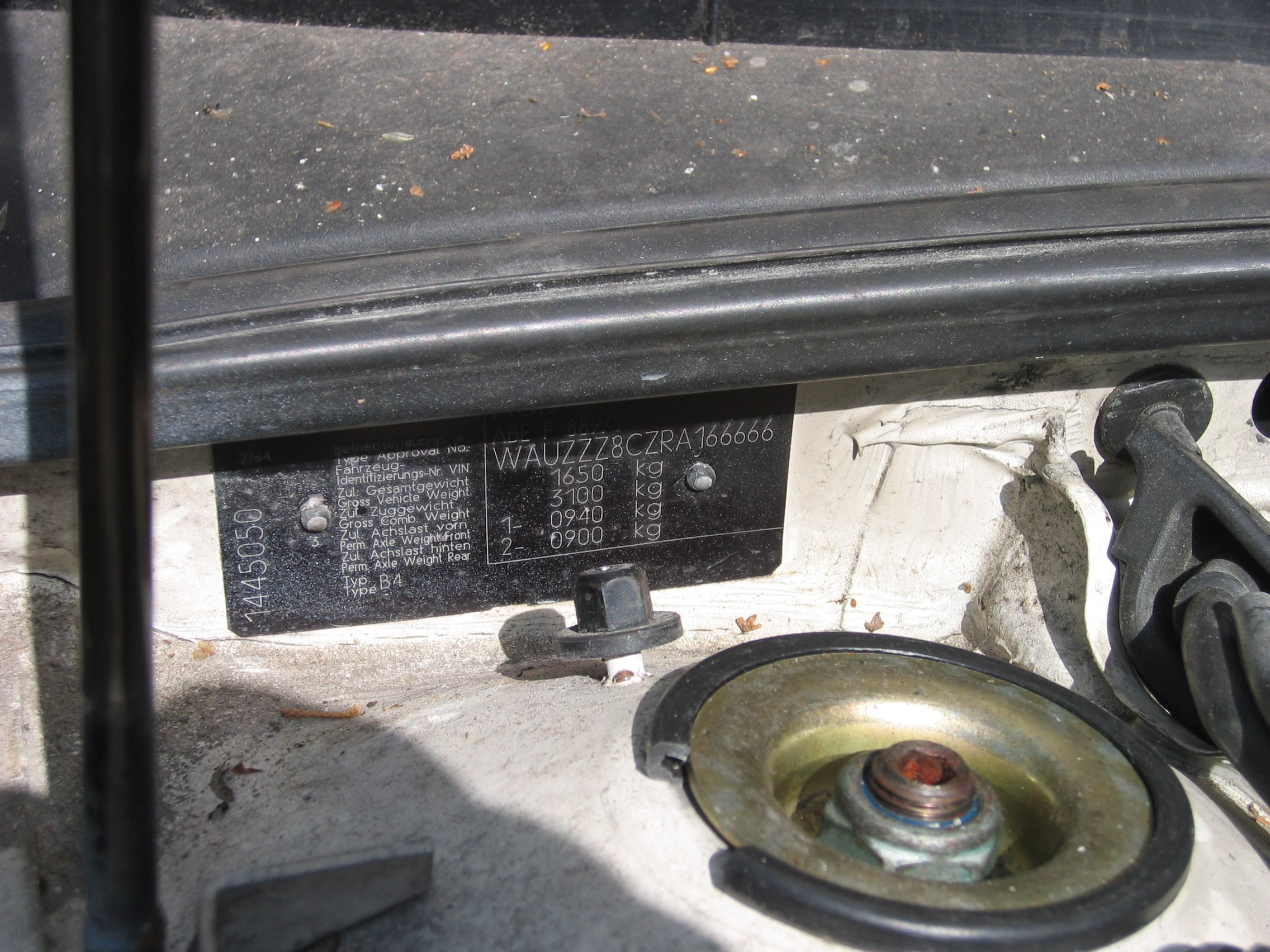 VIN - Vehicle Identification Number in the firewall right side of an Audi 80 (Europe) 90 (US) B4 Series (modified code to prevent fraud - test calculation of checksum will fail!)